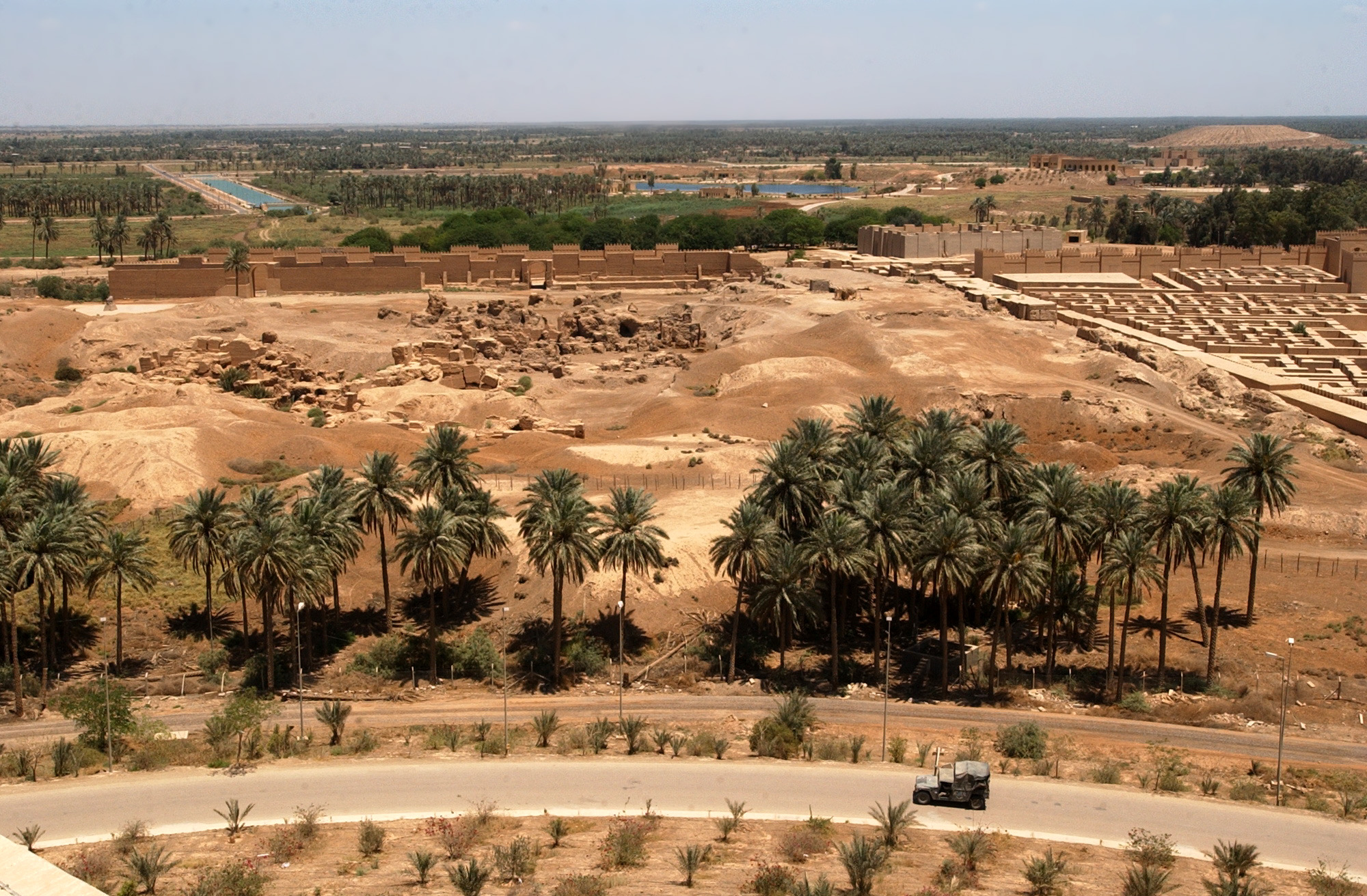 Hillah, Iraq (May, 29th 2003) -- A U.S. Marine Corps Humvee vehicle drives down a road at the foot of Saddam Hussein's former Summer palace with ruins of ancient Babylon in the background. Operation Iraqi Freedom was the multi-national coalition effort to liberate the Iraqi people, eliminate Iraq's weapons of mass destruction and end the regime of Saddam Hussein. U.S. Navy photo by Photographer's Mate 1st Class Arlo K. Abrahamson. (RELEASED) For documentary purposes the US Navy often retained the original image captions, which may be erroneous, biased, obsolete or politically extreme.